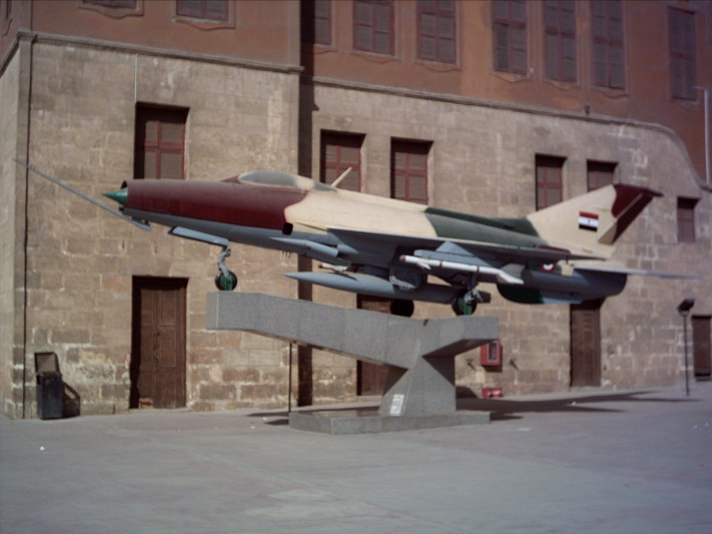 Soviet-Built Egyptian MiG-21F displayed in the Egyptian National Military Museum in Cairo Citadel.